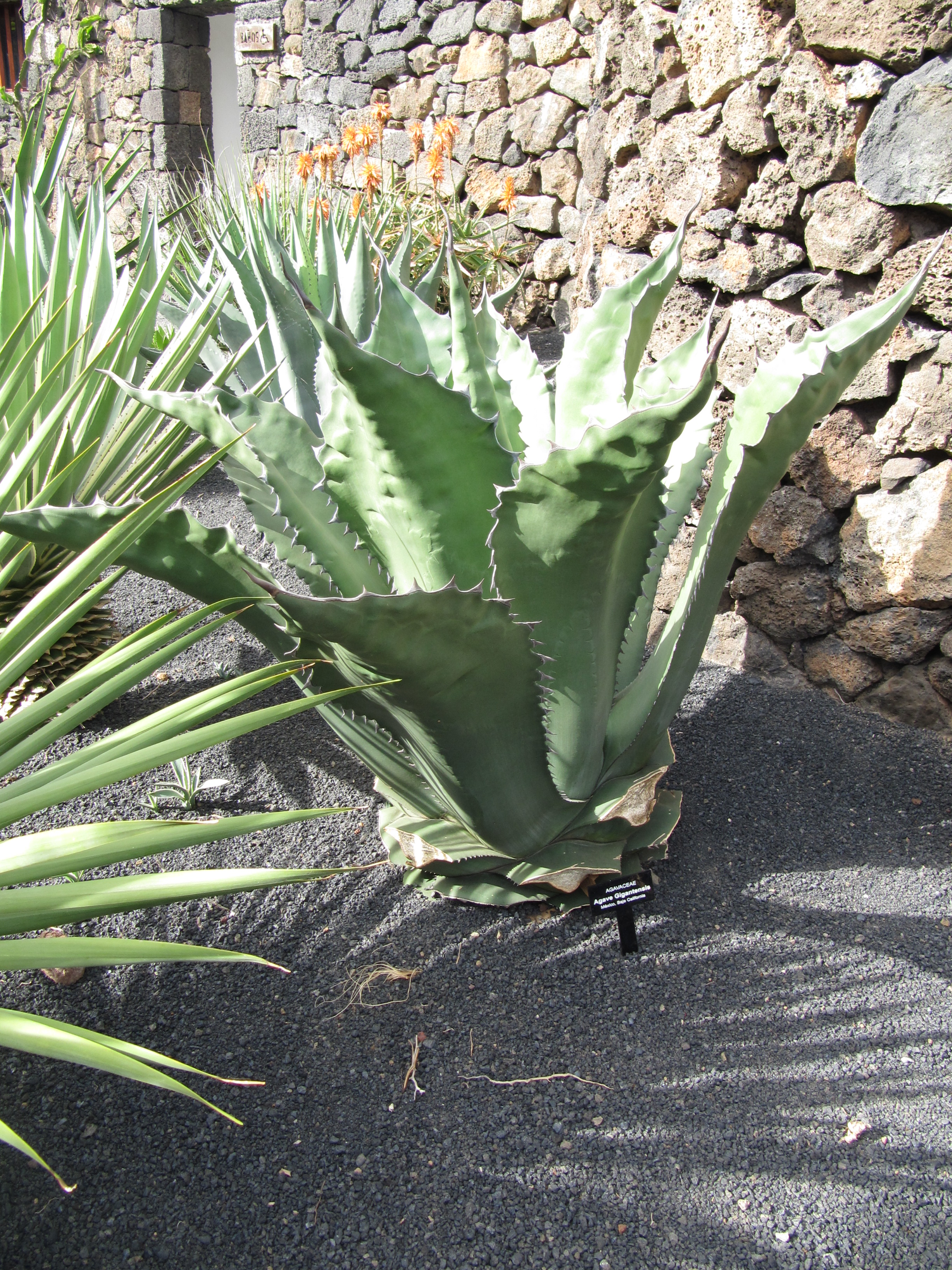 Agave gigantesis